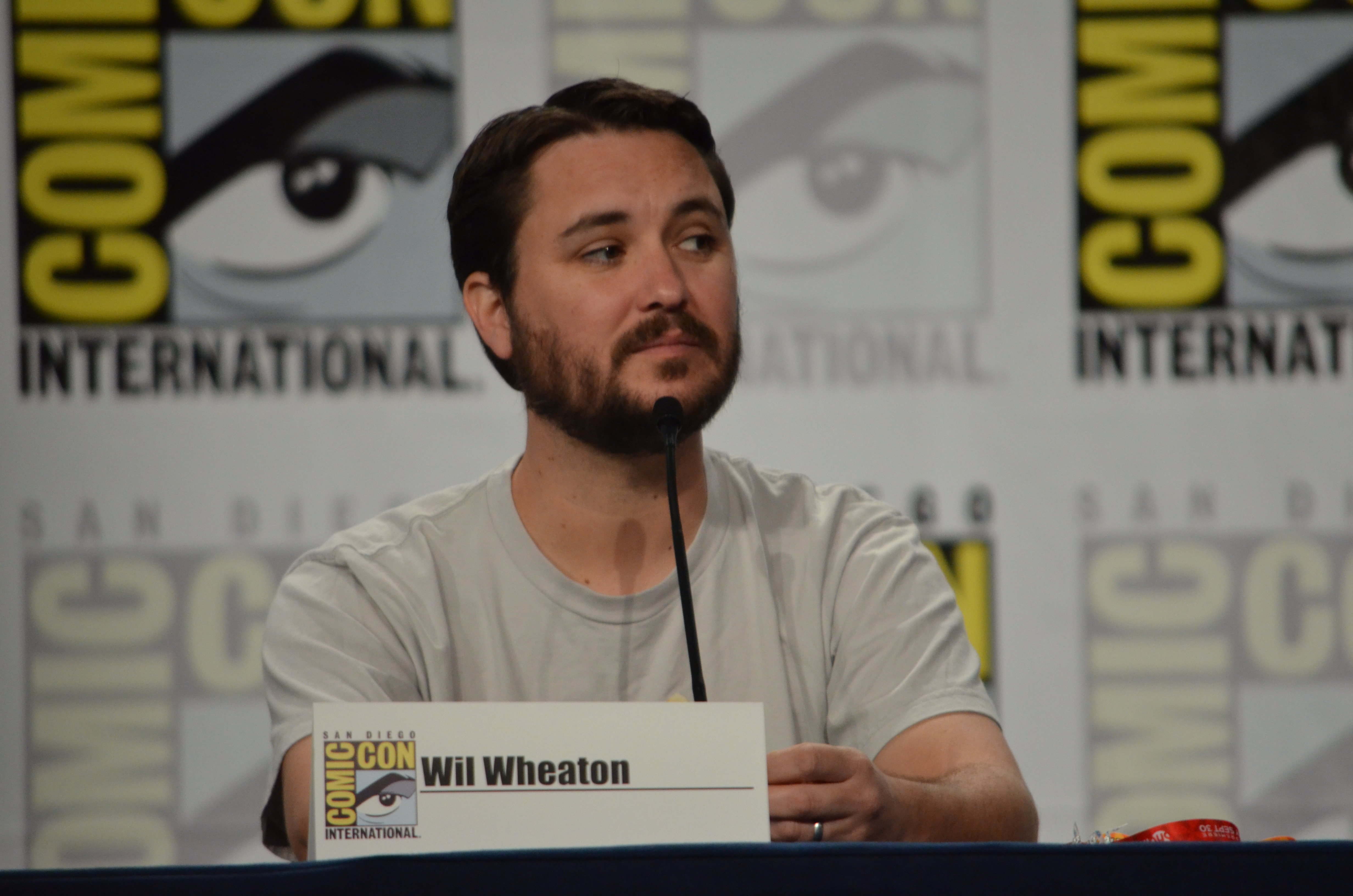 Wil Wheaton